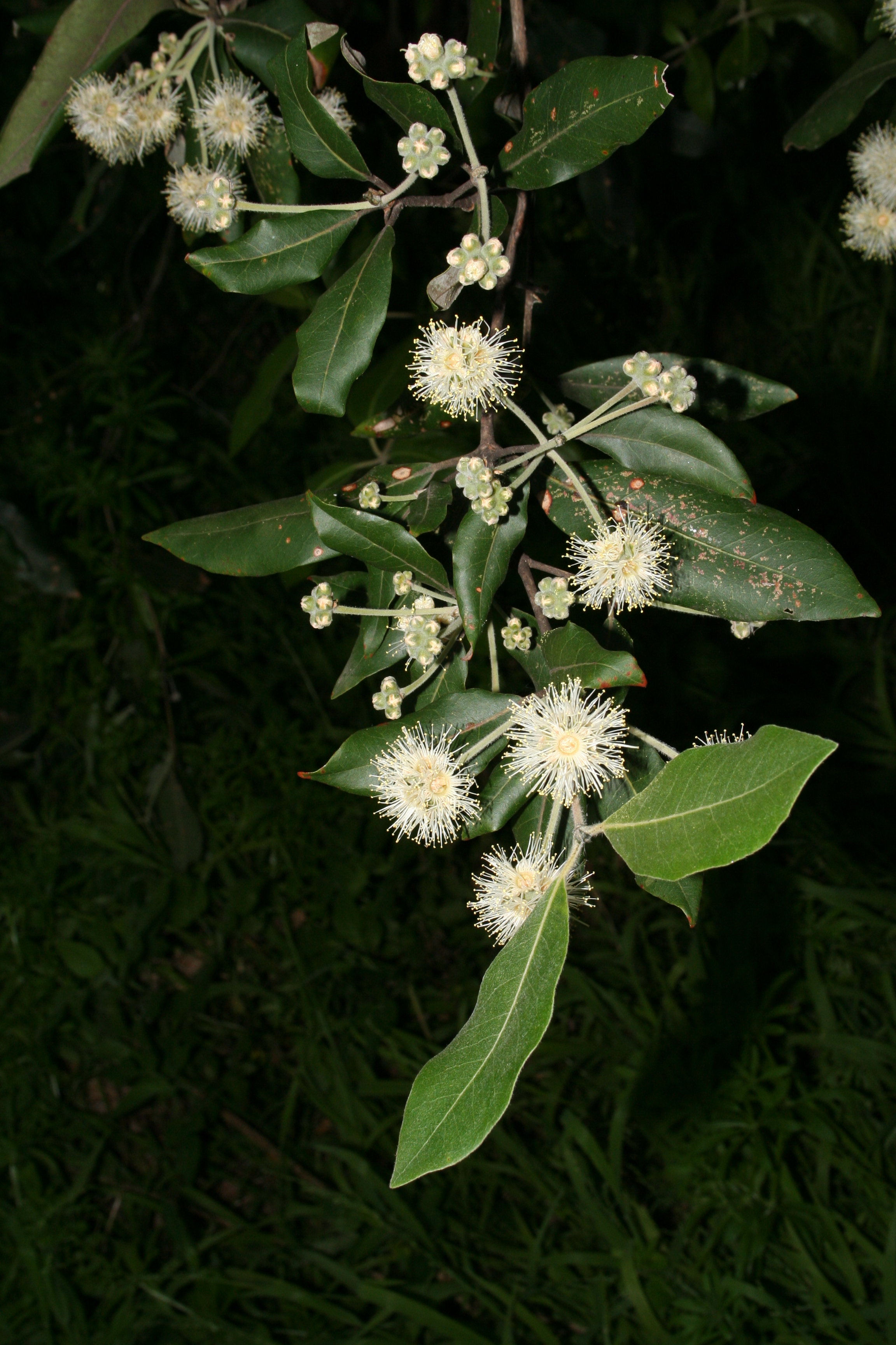 Syncarpia glomulifera in flower, Huneter Region Botanic Gardens